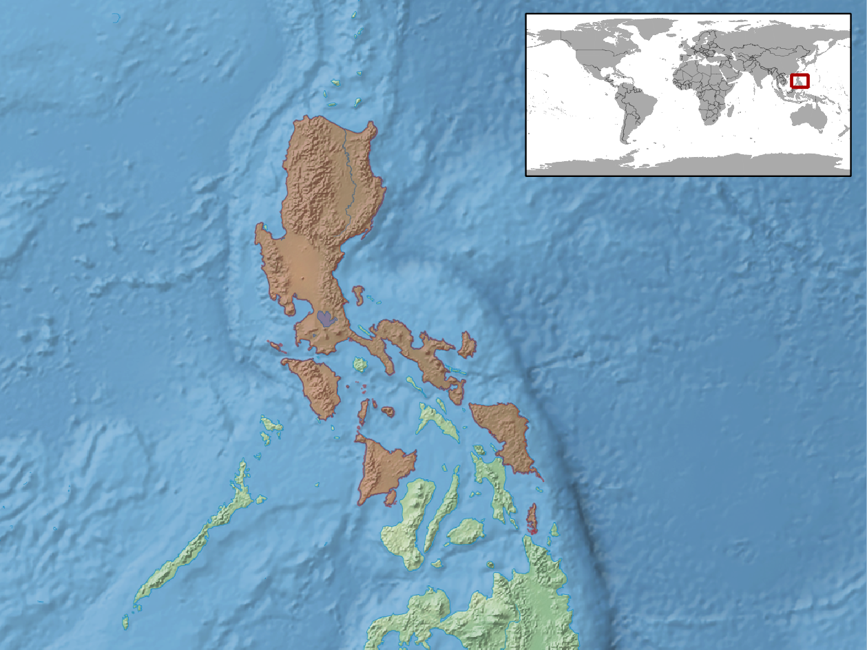 geographic distribution of Cyrtodactylus philippinicus (Native: Philippines / Introduced: Indonesia; Malaysia)